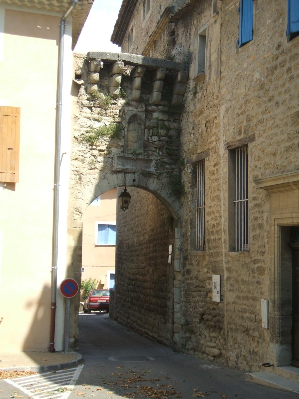 Malaucène (département of Vaucluse, Provence-Alpes-Côte-d'Azur région, France) : Chaberlain gate (1363, altered in 1742).